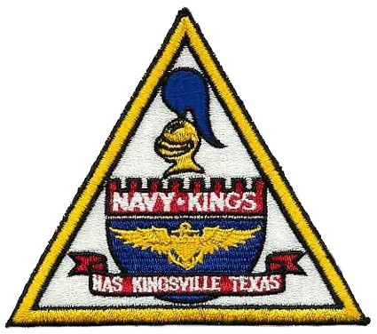 Naval Air Station Kingsville, TX Logo